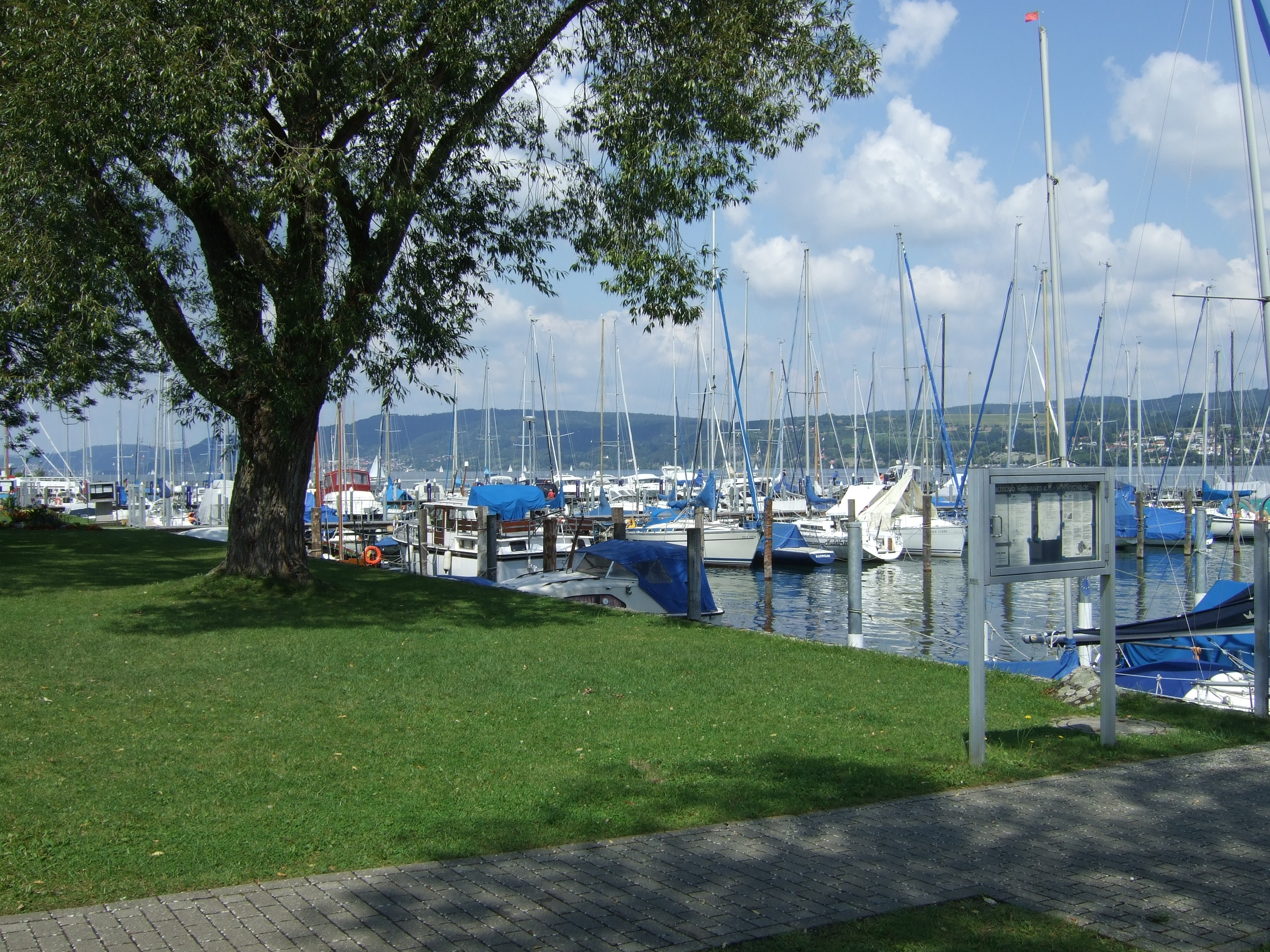 Harbor Konstanz Wallhausen